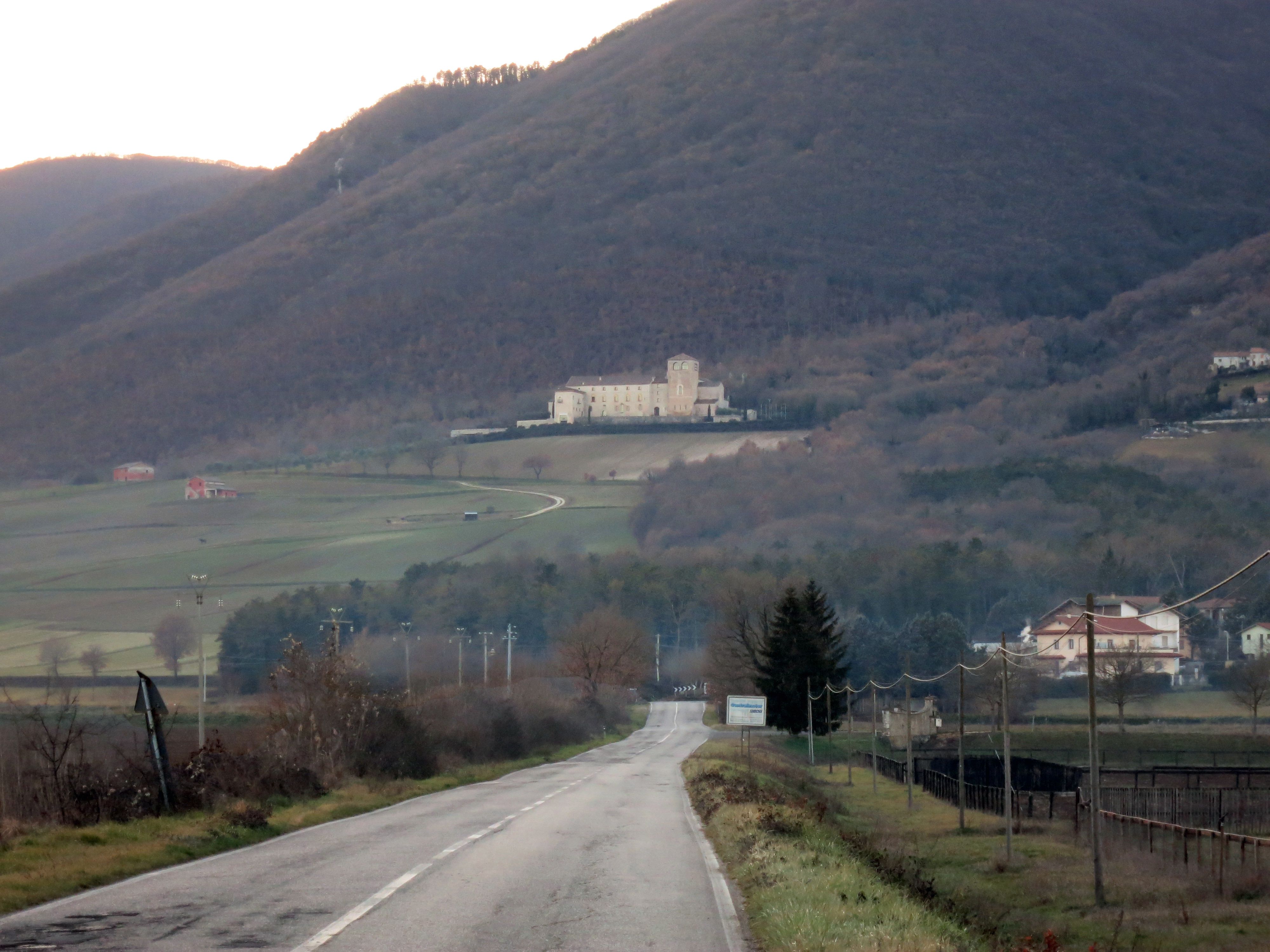 San Pastore Abbey - province of Rieti (Lazio, Italy)